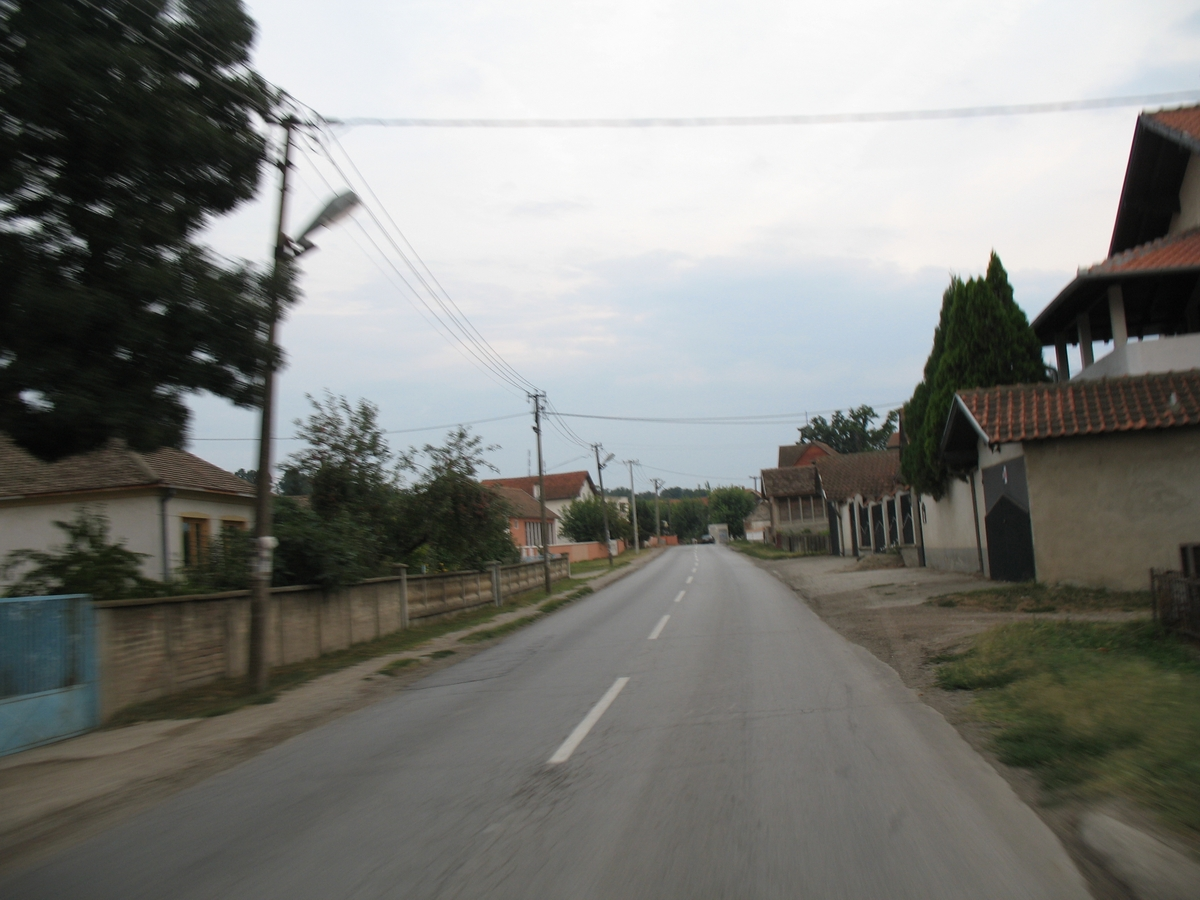 Ćirikovac in Požarevac municipality, Serbia.